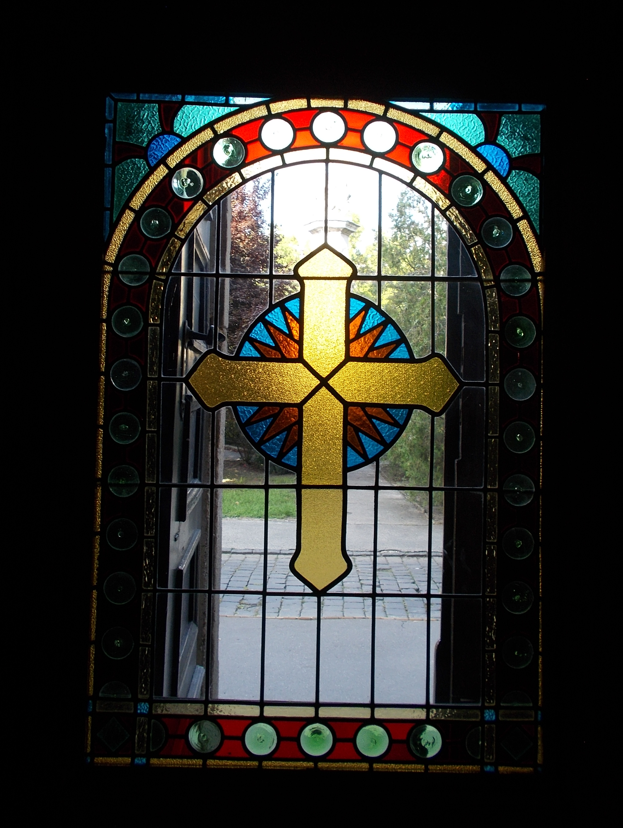 Roman Catholic parish church. Built by Ferenc Homályosi in 1822-1827. Ionic capitals on pilasters. Palladian windows. Wall painting from 18th century. Two angel satue on the altar made by Lőrinc Dunaiszky. - Kossuth Sq., Cegléd, Pest County, Hungary